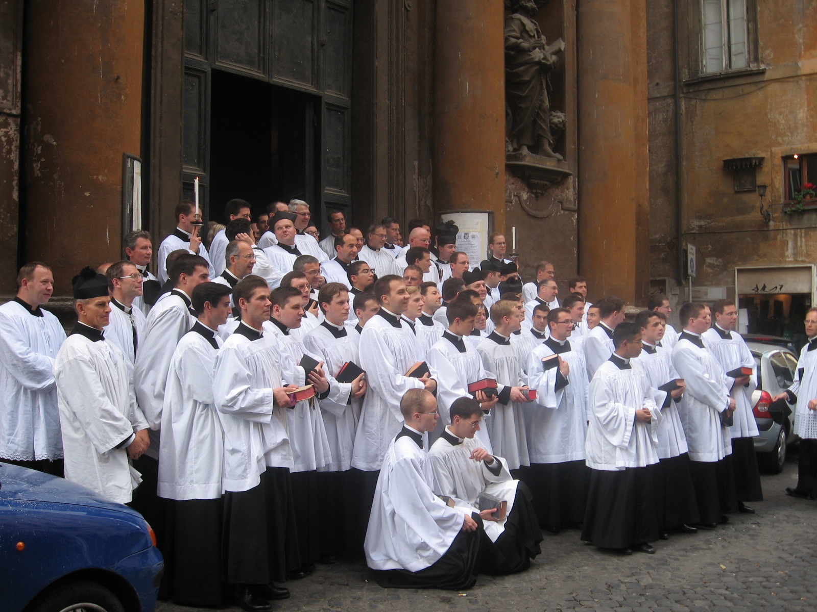 Priest of FSSP, Santissima Trinità dei Pellegrini (Rome)